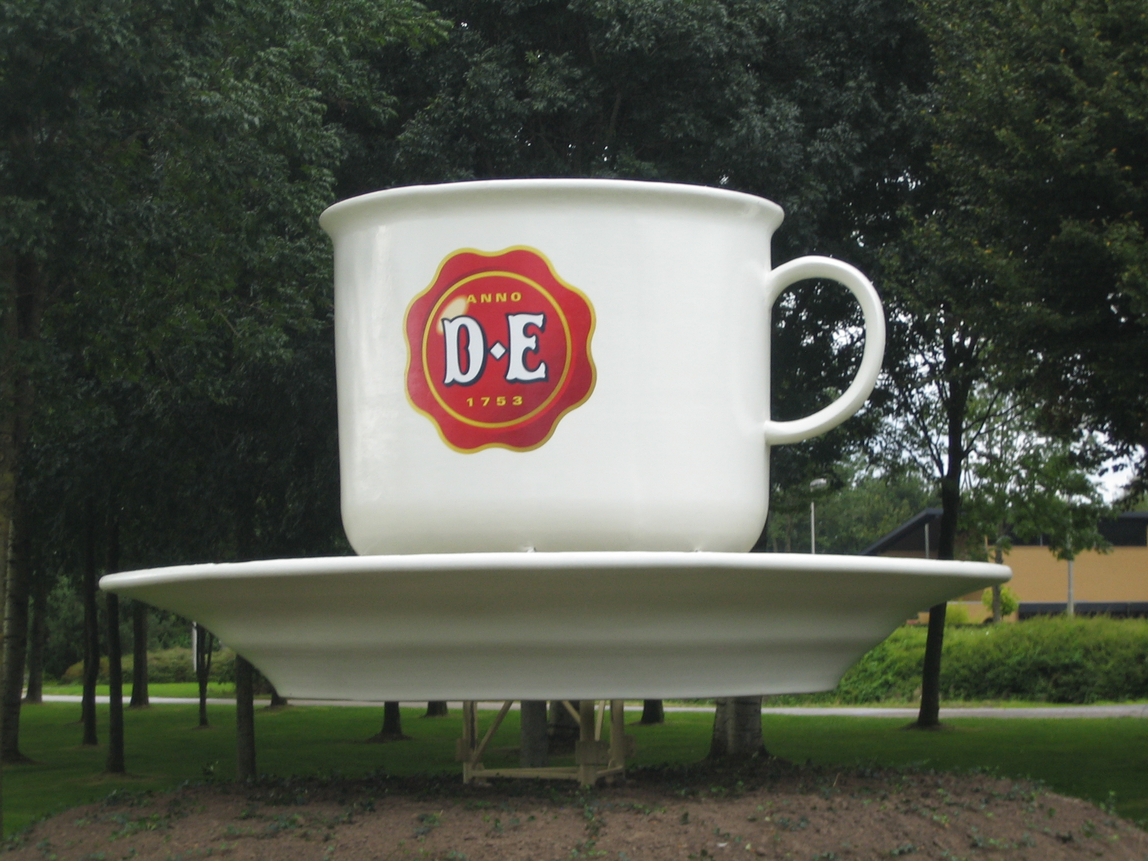 Coffee Cup